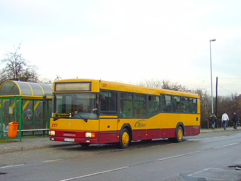 Jelcz M121 bus (#887) in Jaworzno, Poland. Built 2002, Meteor Jaworzno operator.